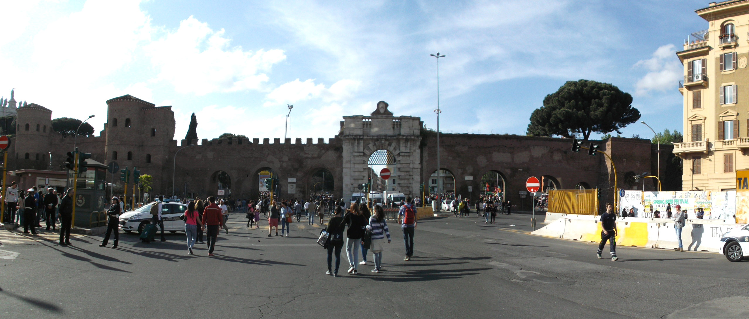 Panoramic view of the external side of Porta San Giovanni in Rome